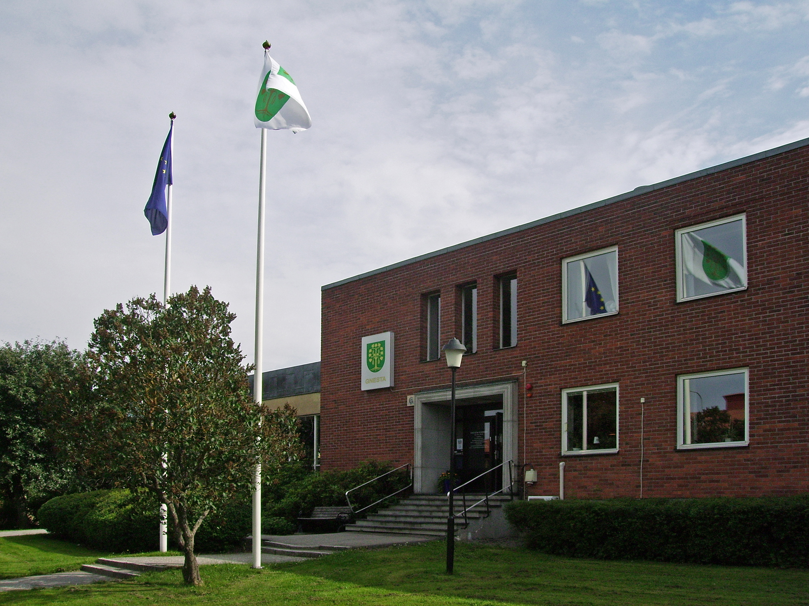 Picture of city hall in Gnesta kommun, in Sweden